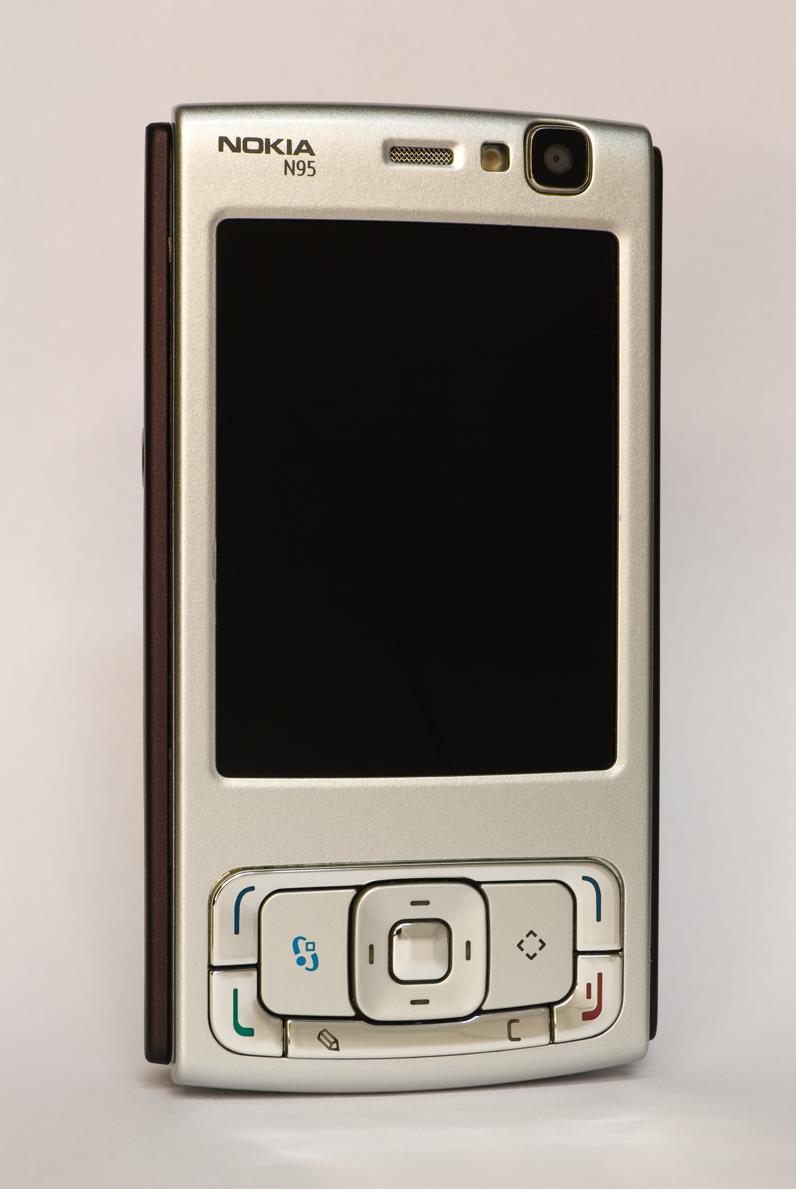 Image of my Nokia N95. Photographed by me.